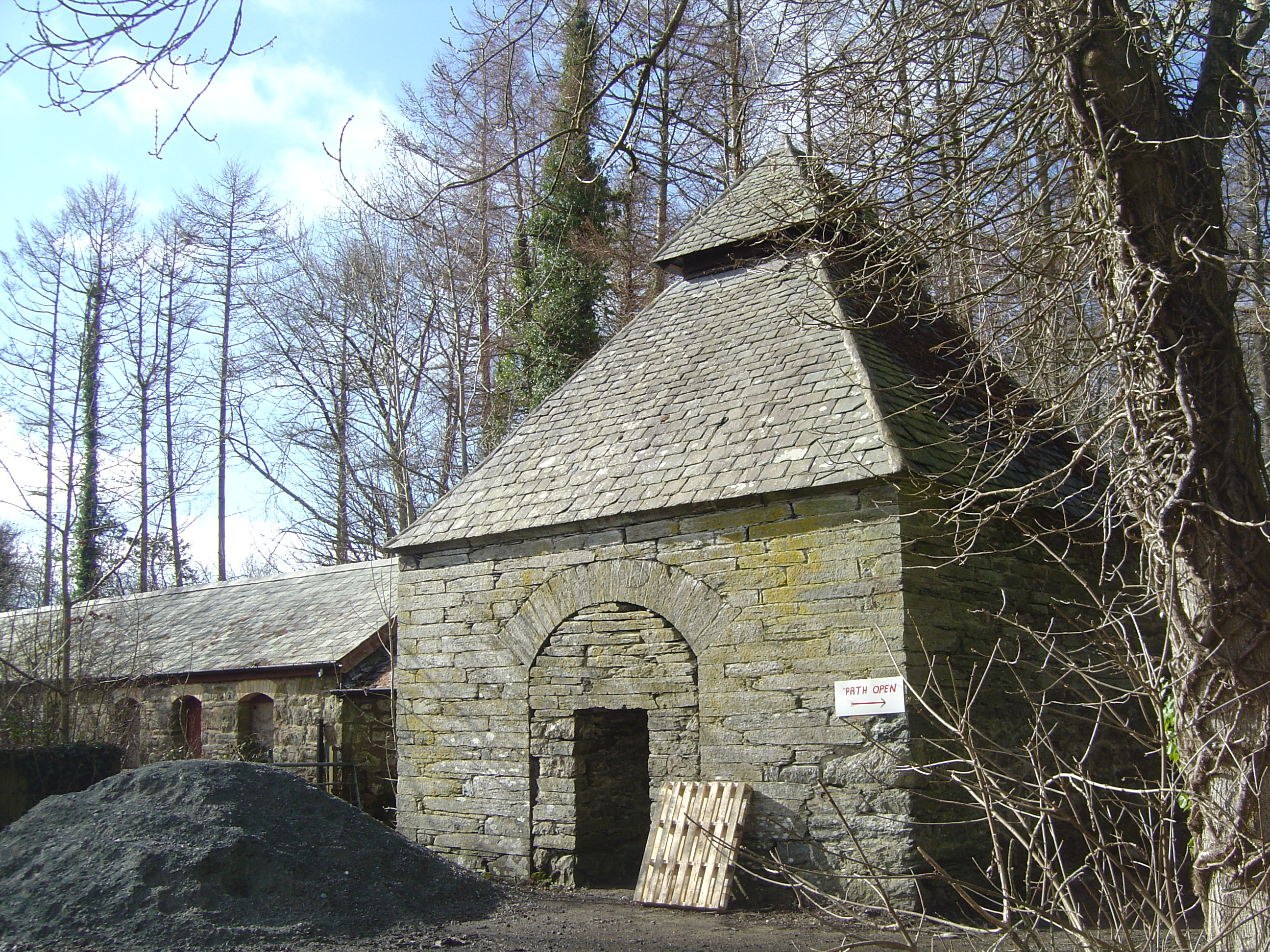 Dovecote at Ynysymaengwyn, Wales